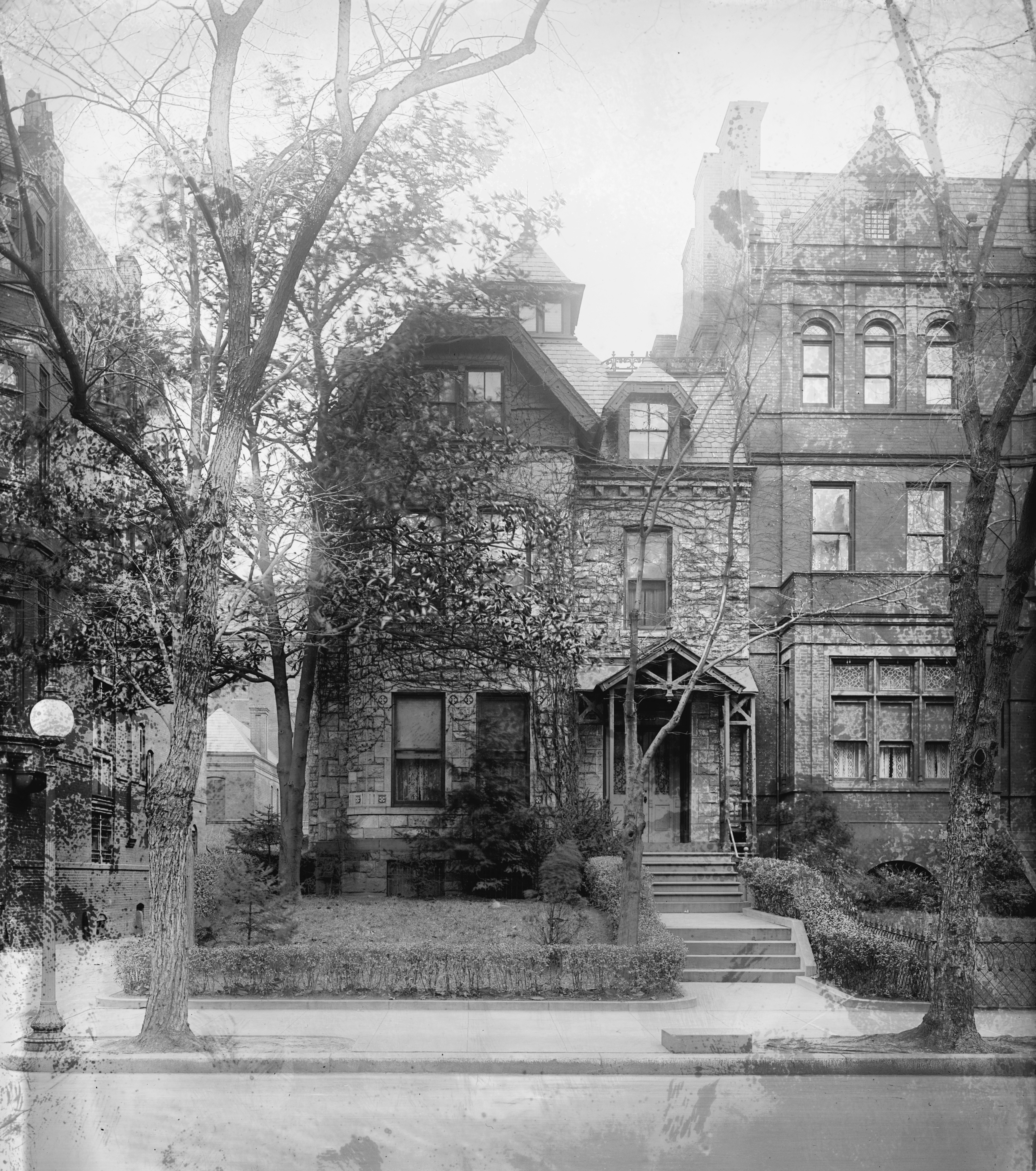 House at 1625 K Street, Washington, D.C. As the headquarters for the corrupt "Ohio Gang" during the Harding administration, this building became notorious as the "Little Green House on K Street".